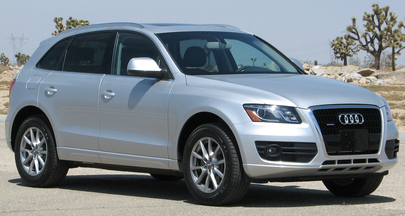 2009 Audi Q5 3.2 photographed in USA.